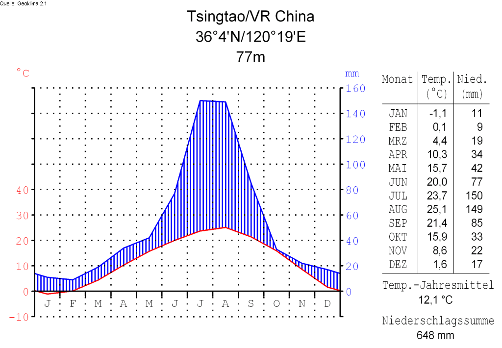 climate chart in the format by Walter and Lieth, metric, °Celsisus and millimeters, made with Geoklima 2.1